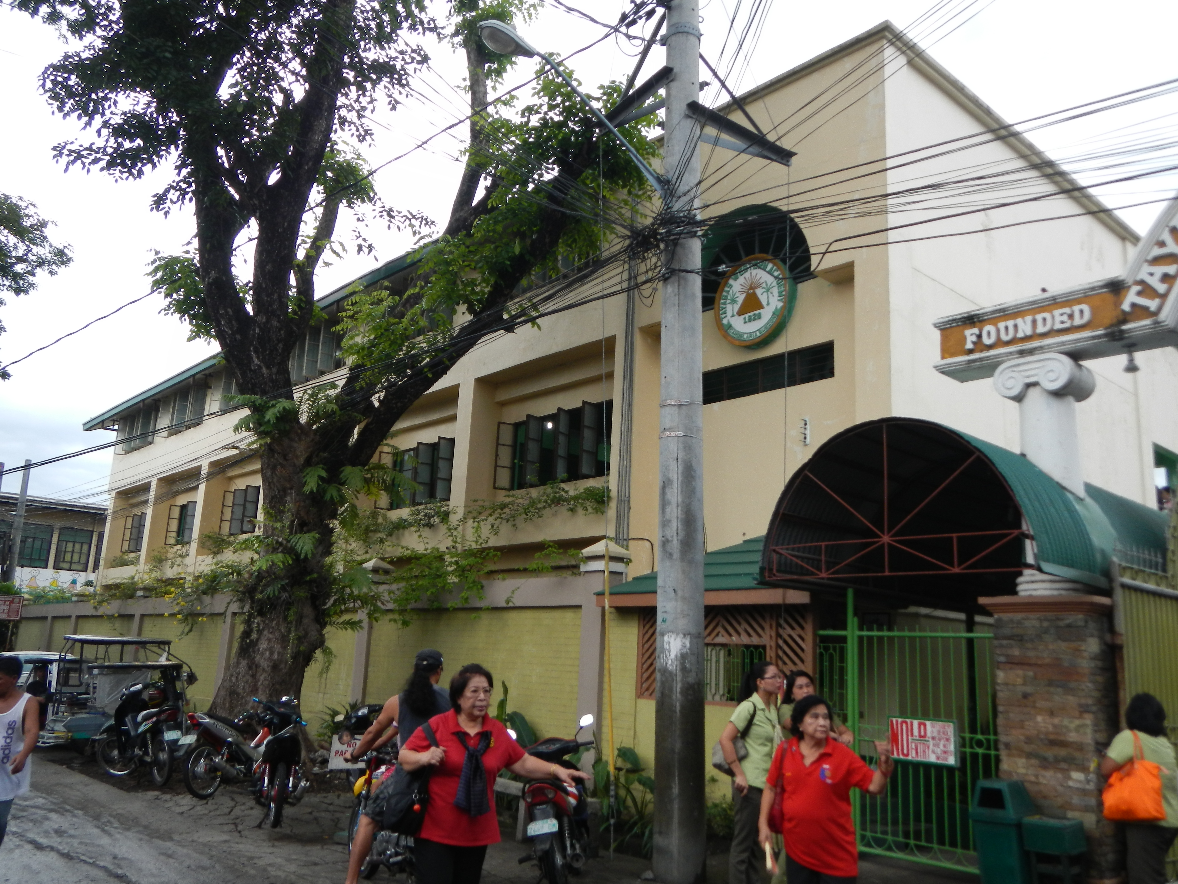 Tayabas Western Academy [1] De Gala St., Candelaria 4323[2] [3] Private Non-Sectarian Mr. Francisco B. Montecillo - President : De Gala St., Candelaria, Quezon 4323 Year Established : 1928 [4] [5] Coordinates: 13°55'47"N 121°25'26"E - Candelaria, Quezon [6] The Municipality of Candelaria (Filipino: Bayan ng Candelaria) is a first class municipality in the province of Quezon, [7] Philippines; (2010 census, it) has a population of 110,570, it has a total area of 175 km².